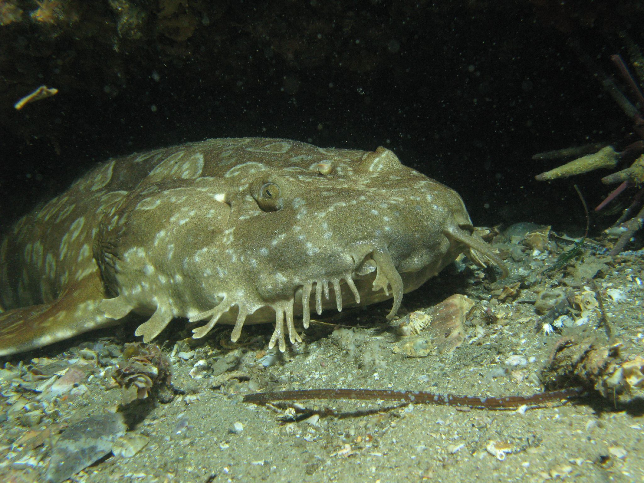 Spotted wobbegong (Orectolobus maculatus) off Sydney